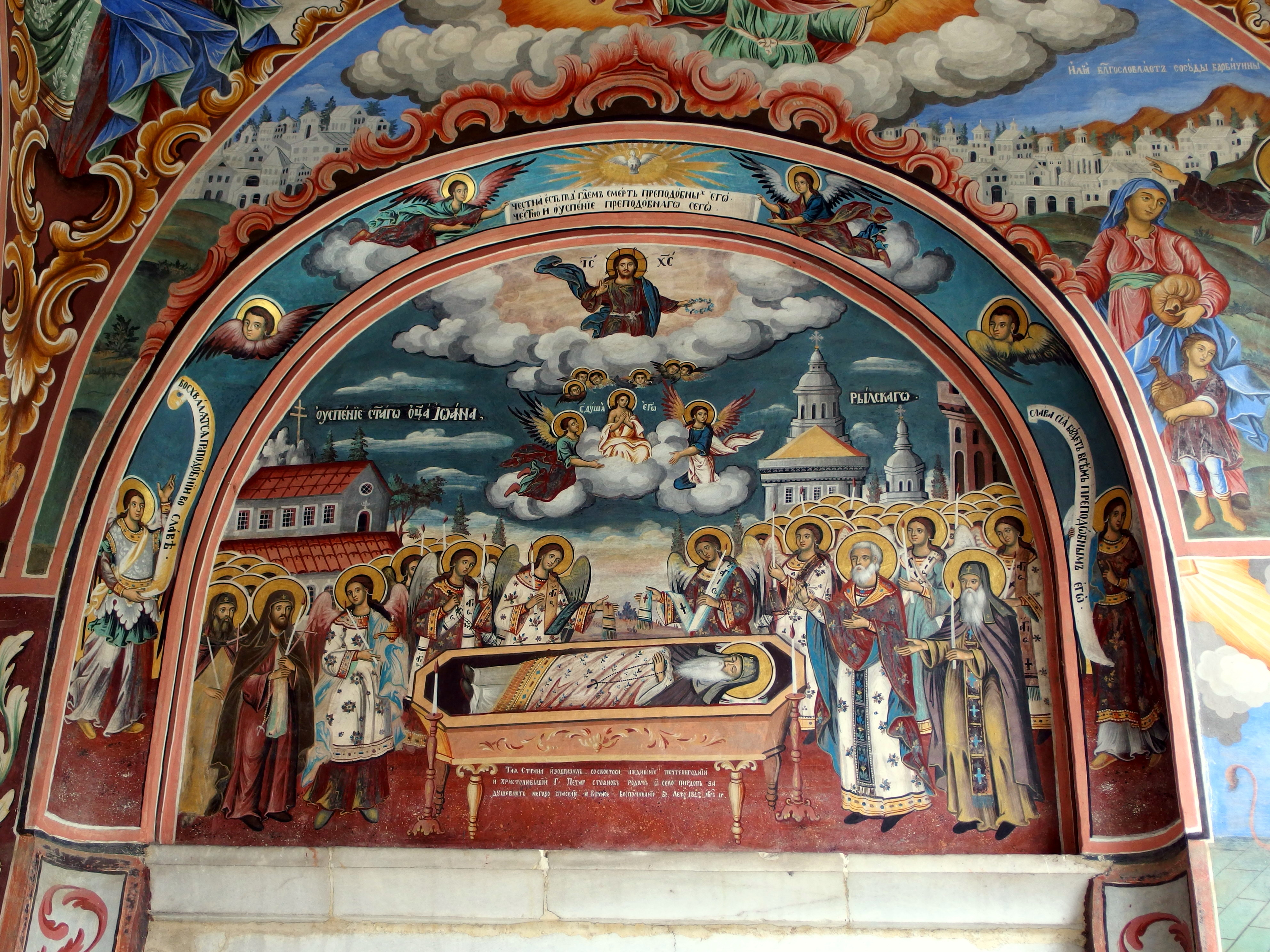 2014-06-17 at Rila Monastery.